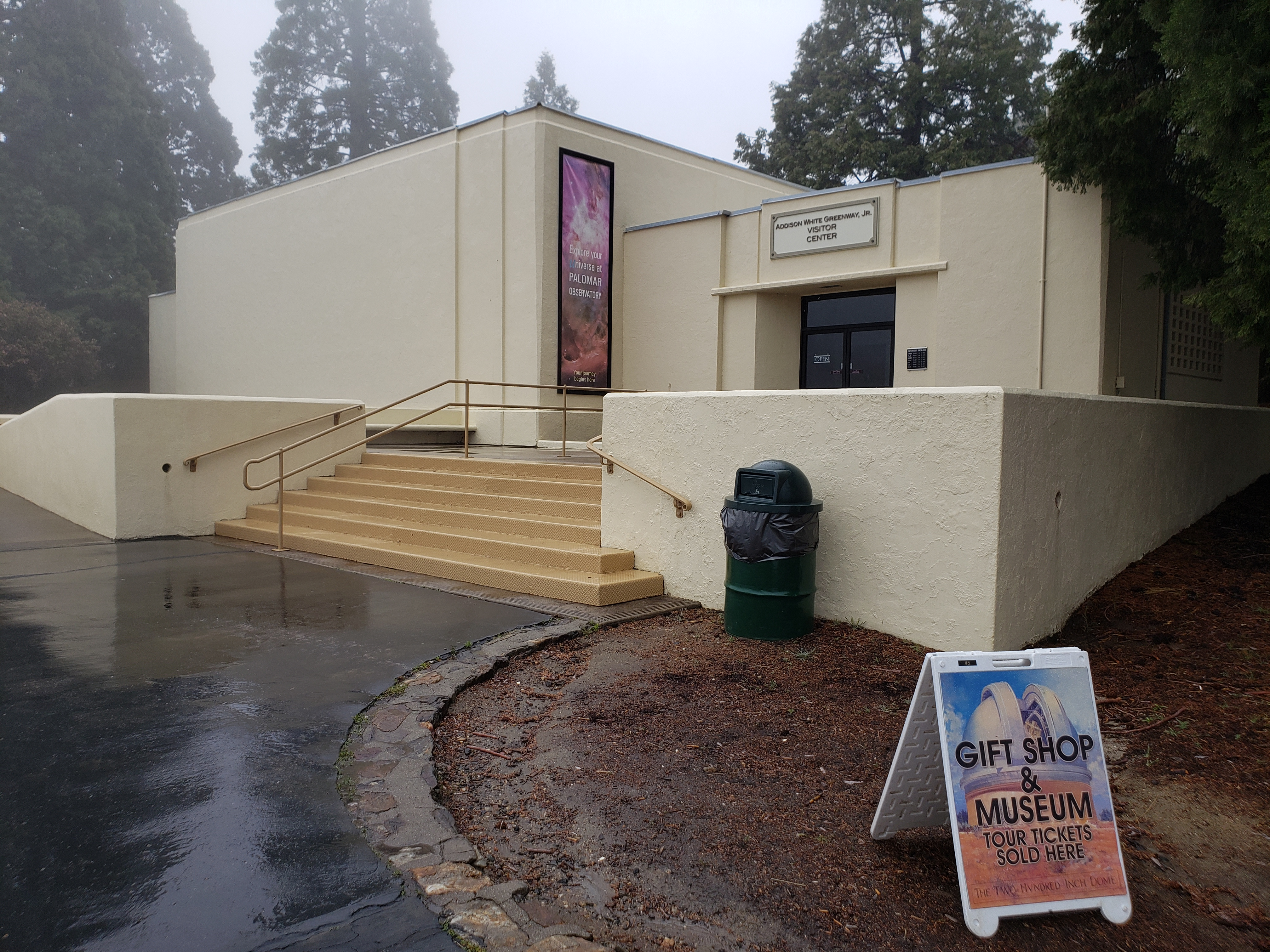 Greenway Visitor Center at CalTech's Palomar Observatory. A sandwich board advertising the Gift Shop inside and tours of the Hale Telescope